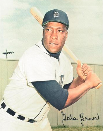 Professional baseball player Gates Brown